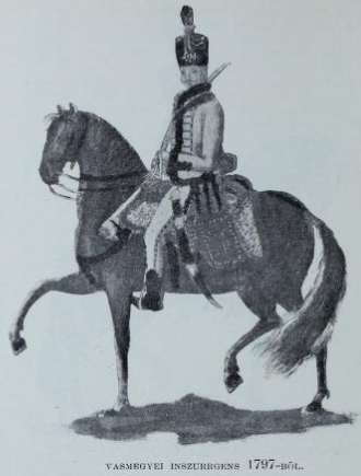 Insurgent (1797)